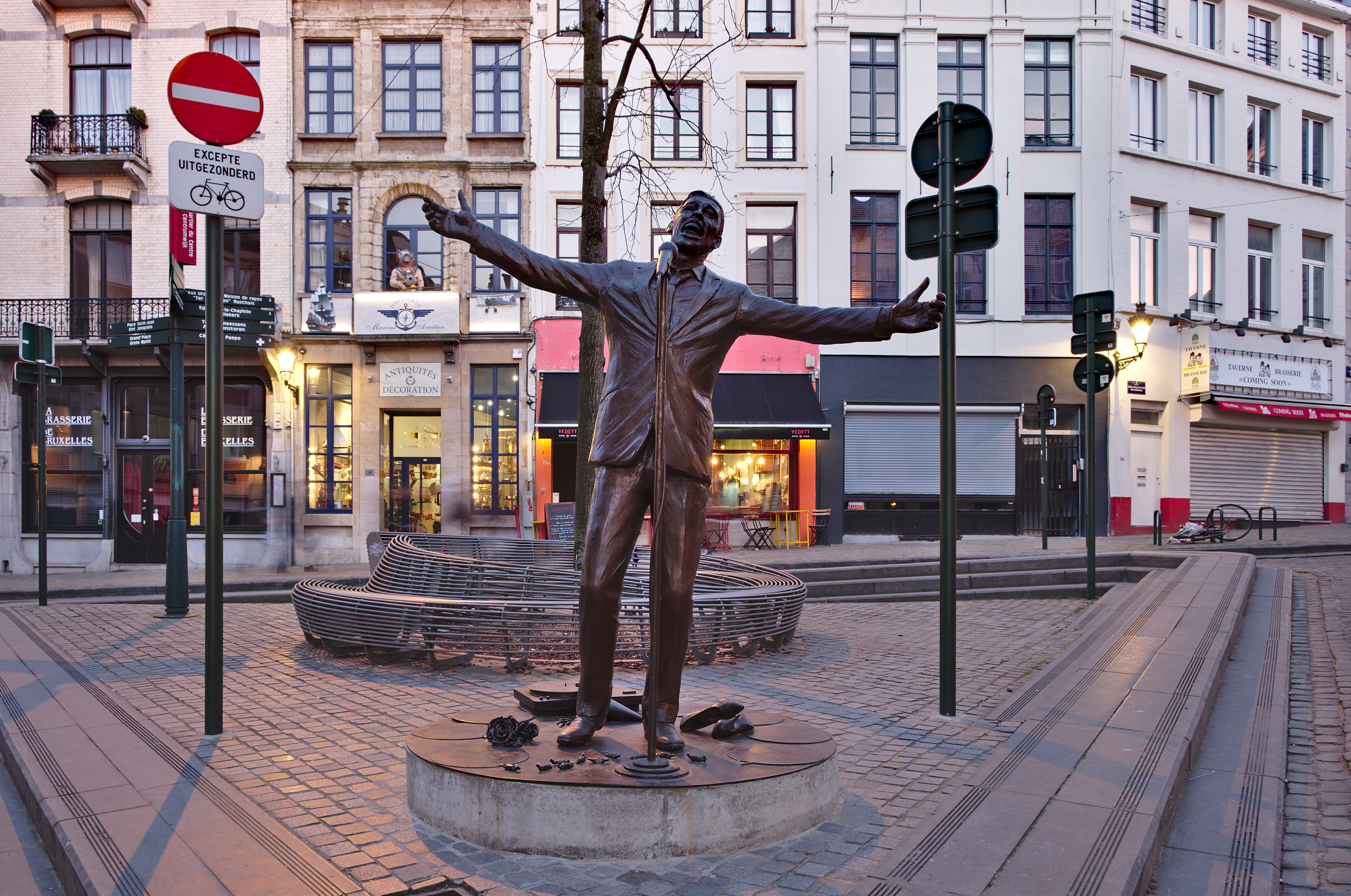 Jacques Brel memorial bronze statue by Tom Frantzen on place de la Vieille Halle aux Blés during the evening civil twilight in Brussels, Belgium